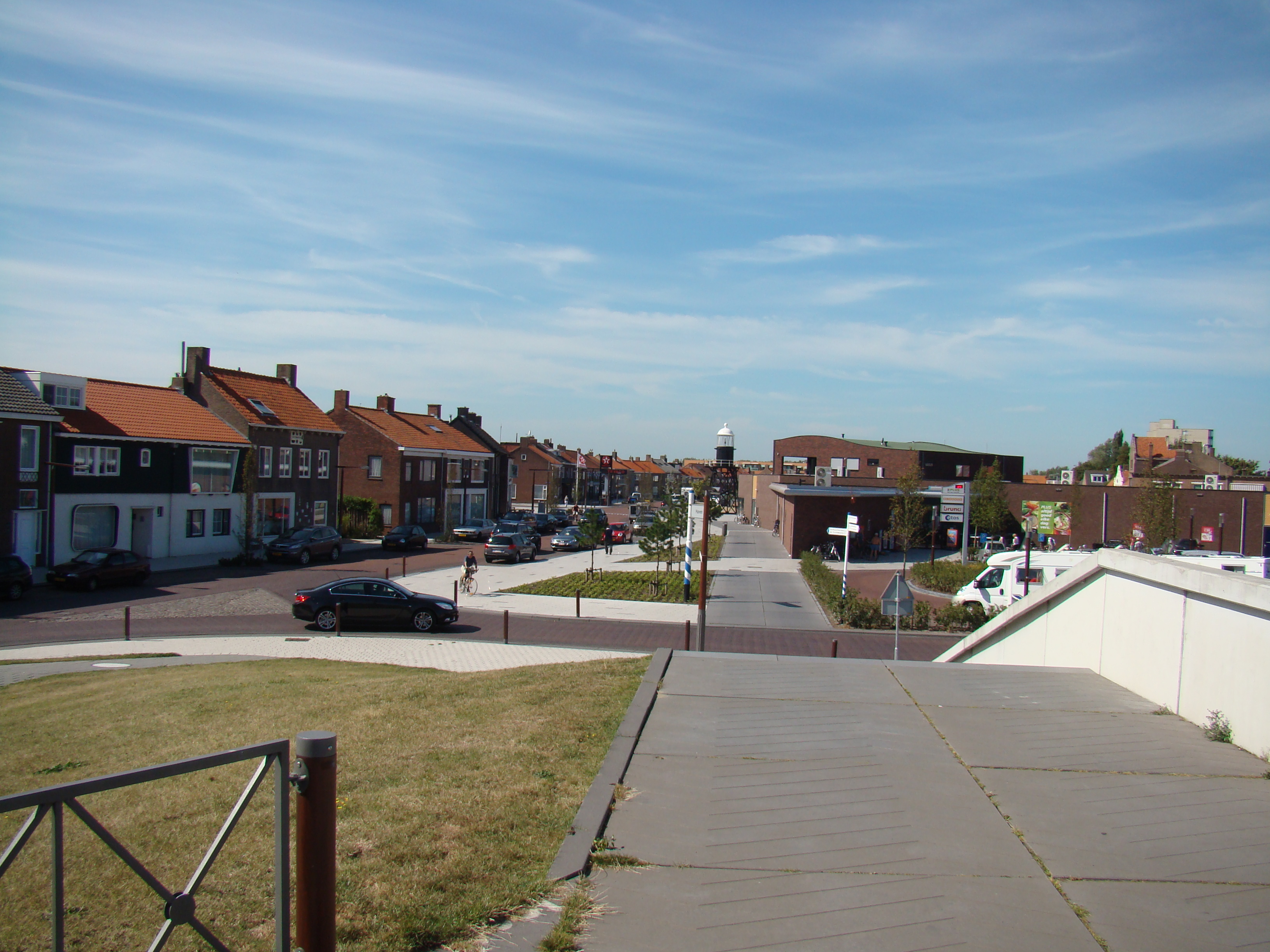 View on Breskens (Netherlands) from the promenade